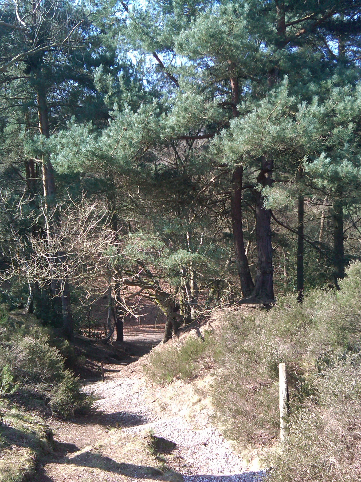 Addington Hills, London, Surrey, UK